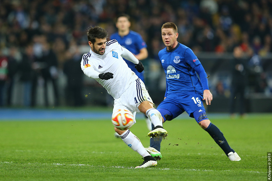 UEFA Europa League 2014-15 1/8 Final NSK Olimpiyskyi - Kyiv 19/03/2015 - 19:00CET (20:00 local time) Round of 16, Second leg Dynamo Kyiv - Everton - 5:2 Goals: Yarmolenko 21 Lukaku 29 Teodorczyk 35 Miguel Veloso 37 Gusev 56 Antunes 76 Jagielka 82 Aggregate: 6-4